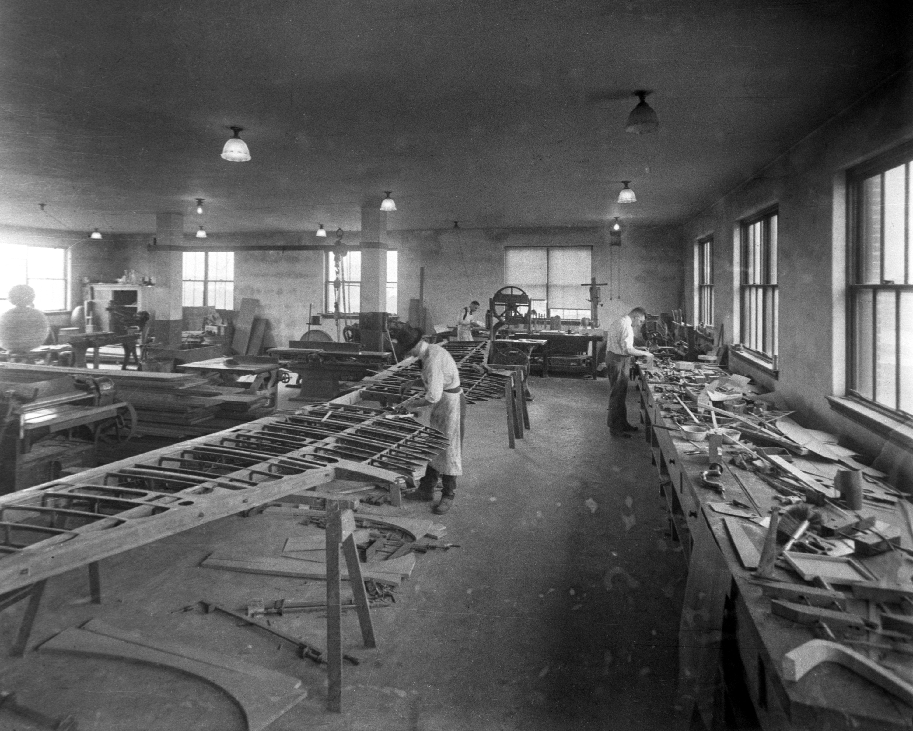 Workmen in the patternmakers' shop manufacture a wing skeleton for a Thomas-Morse MB-3 airplane for pressure distribution studies in flight, June 1922.